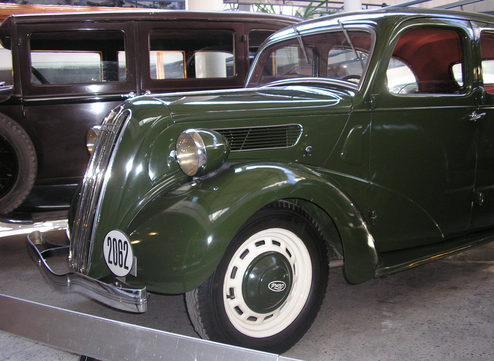 A 1938 Ford-Vairogs "10" Junior De Luxe. Four cylinder 1172 cc side valve engine giing 32 hp and a top speed of 100 km/h. Total weight of the car is 850 kg. It features all wheel mechanical brakes, for seated metal body and rubber-mounted engine.